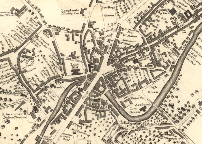 Map of Kilmarnock in 1819